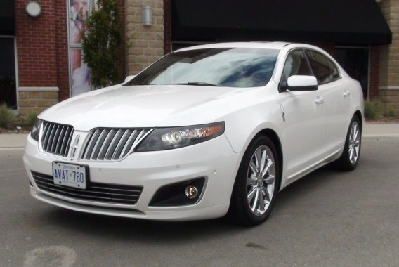 2010 Lincoln MKS